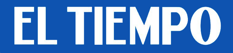 Logo of El Tiempo since 2010